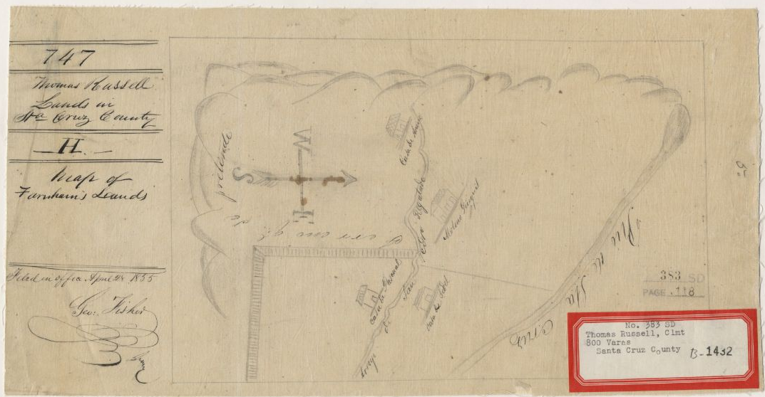 photo of historic map